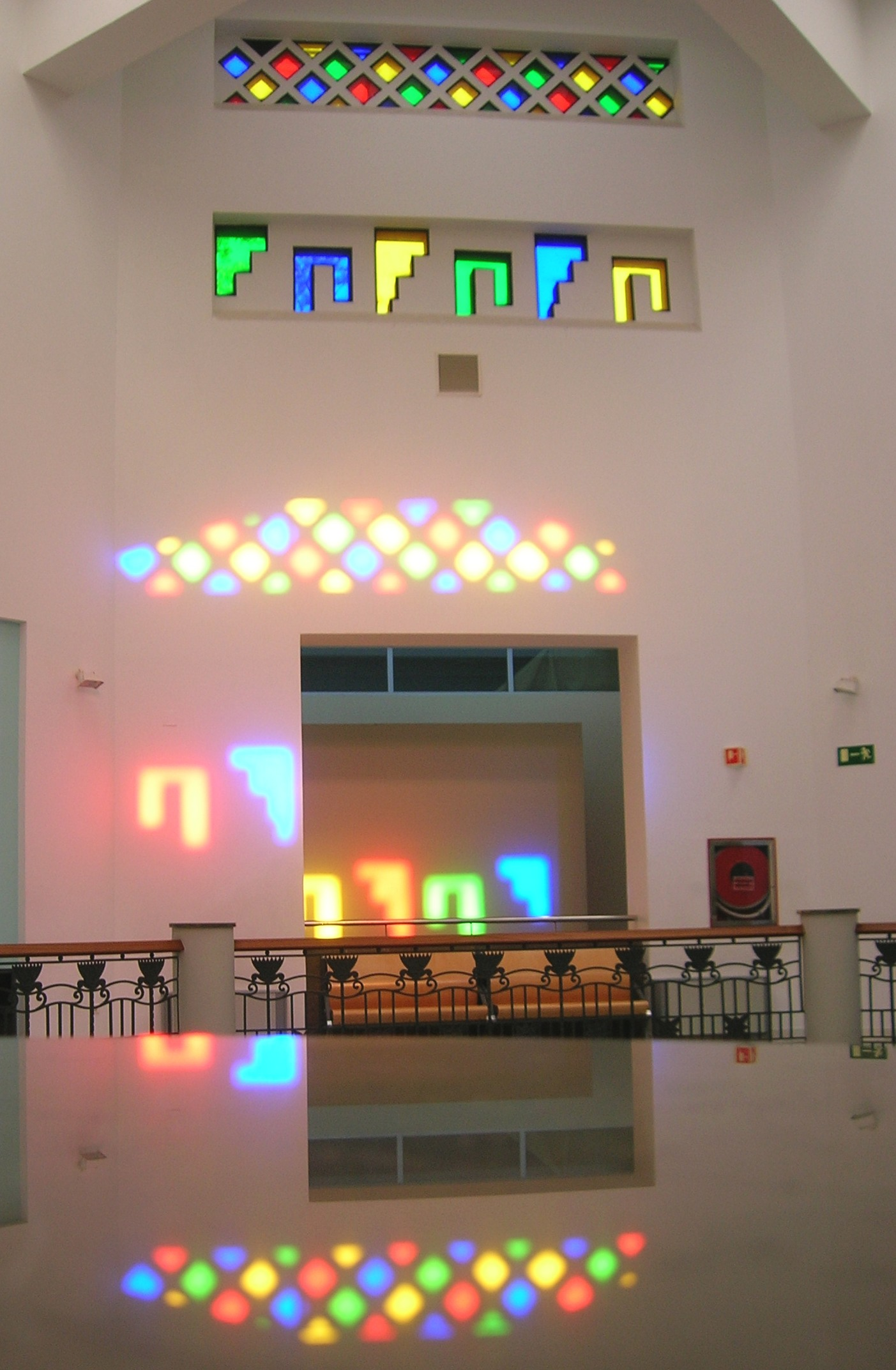 Interior of the former Pavillion of Mexico at Sevilla Universal Exhibition. Currently, it hosts the vice-Rectorate of Postgraduate and Doctorate of the University of Seville.